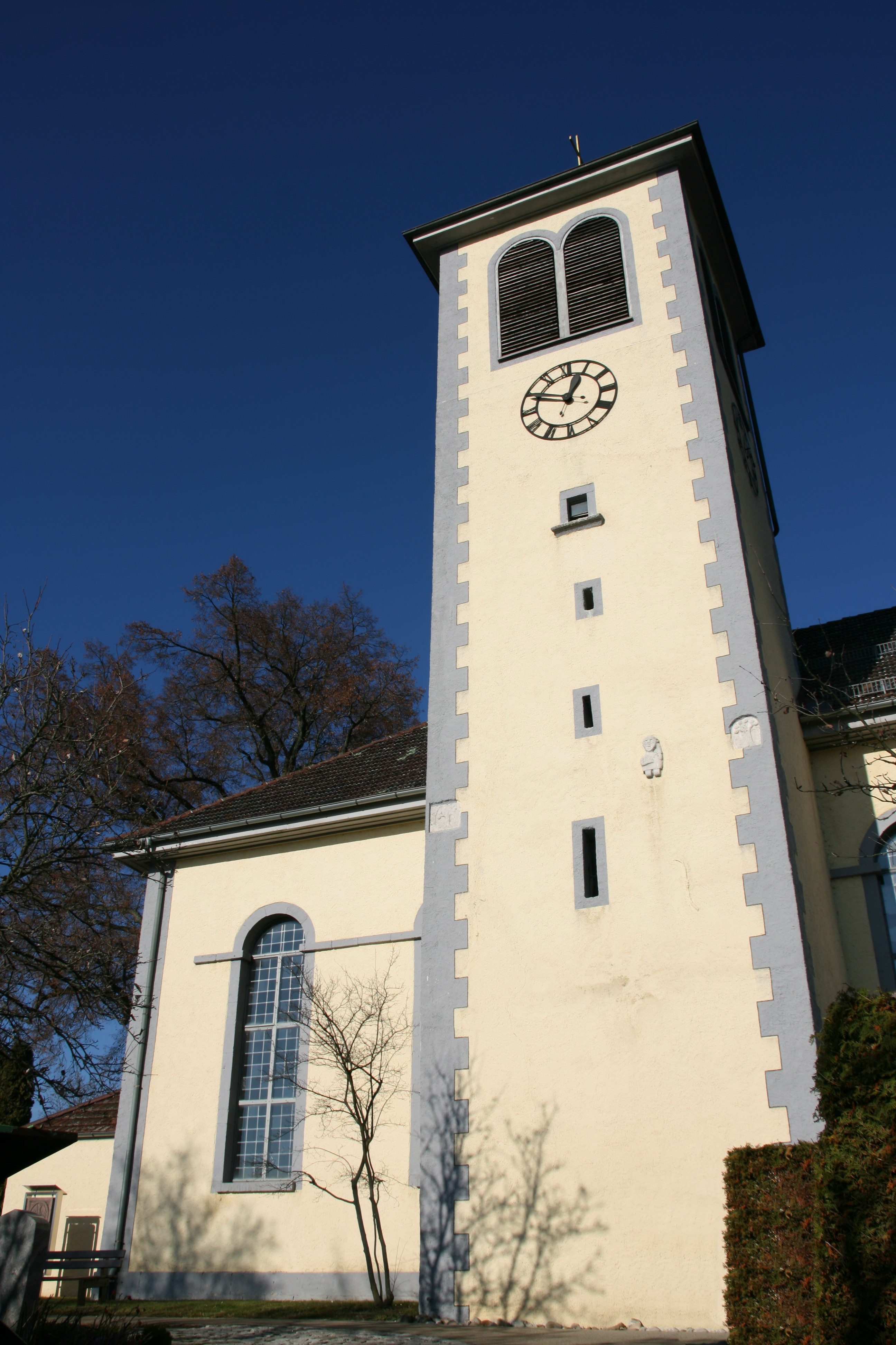 Front Close-Up of the Protestant Church in Rietheim-Weilheim